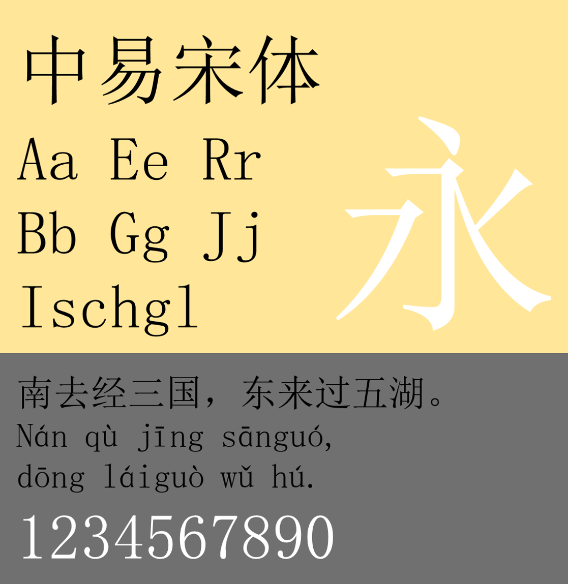 Sample of SimSun font, displayed is SimSun v5.16. Shown in picture are Latin alphabets “AaBbEeGgJjRr”, “Ischgl”, Simplified Chinese “南去经三国，东来过五湖。” with its pinyin, and numerals 1-0.